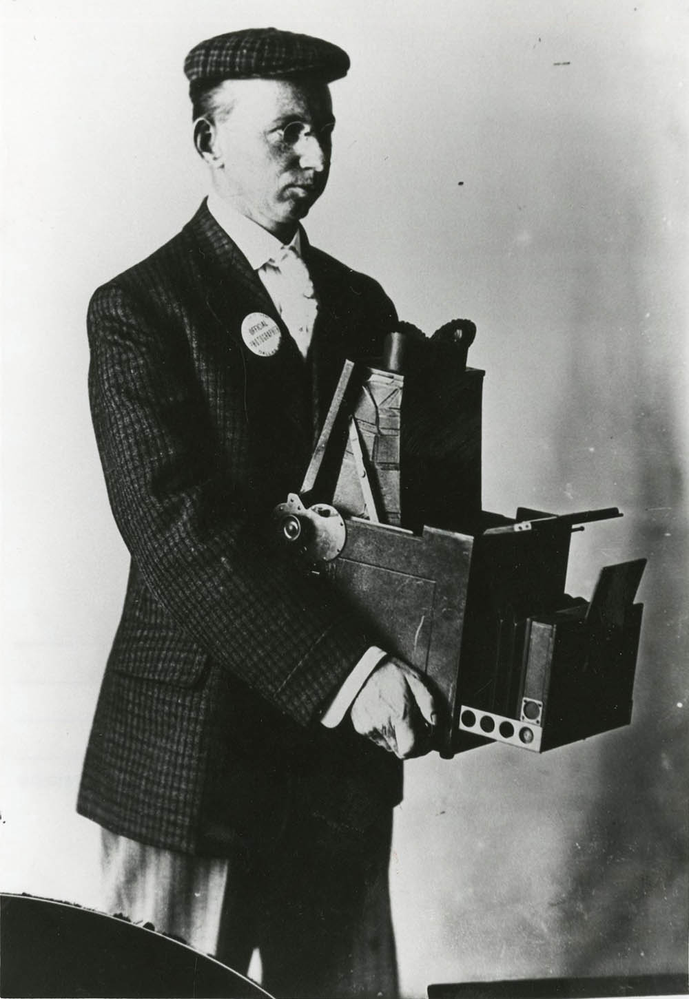 Self-portrait of photographer Fred Gildersleeve with his box style camera.